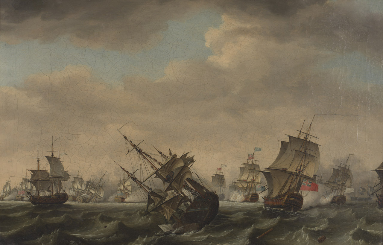 The Battle of Quiberon Bay, 20 November 1759. In this view from astern of the action, looking towards the French coast, the ship sinking in the centre is the French Thesee, with Augustus Keppel's Torbay to the right. Between them in the distance de Conflans' Soleil Royal is engaged with Hawke's 'Royal George', right, flying his blue command flag at the mainmast. Another French ship, the Superbe is sinking in the left distance, largely swamped (as was the Thesee) by water coming through her lower gunports. .